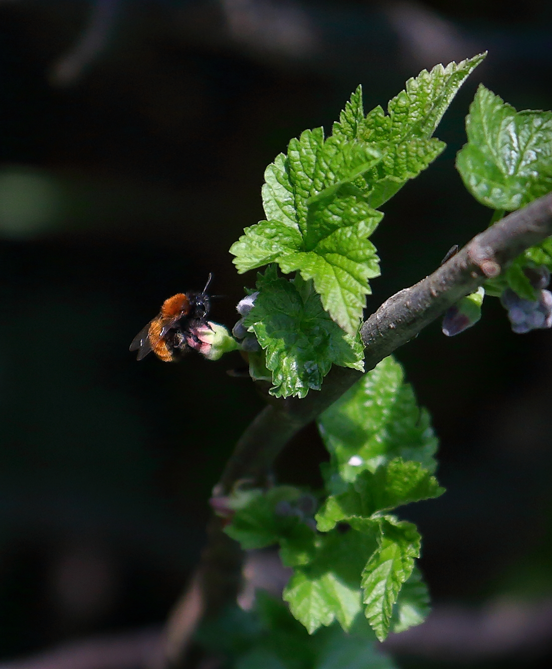 Female Tawny Mining Bee (Andrena Fulva) collecting pollen from a Blackcurrant (Ribes Nigrum) flower during April in southern England. MG 4856-2